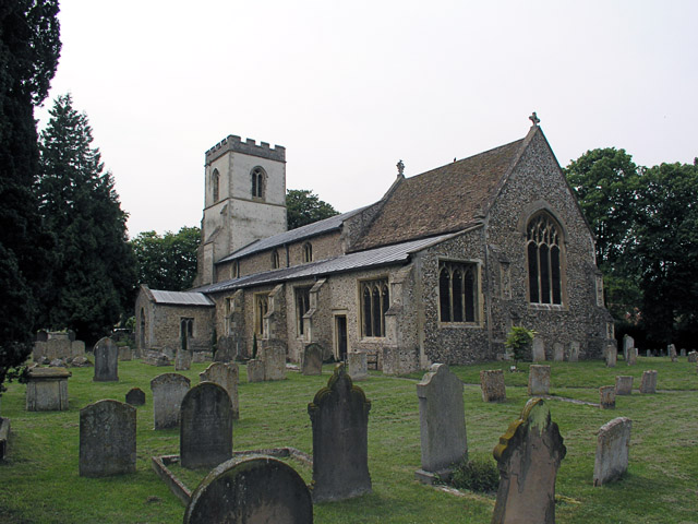 St Margaret's parish church, Chippenham, Cambridgeshire, seen from the east